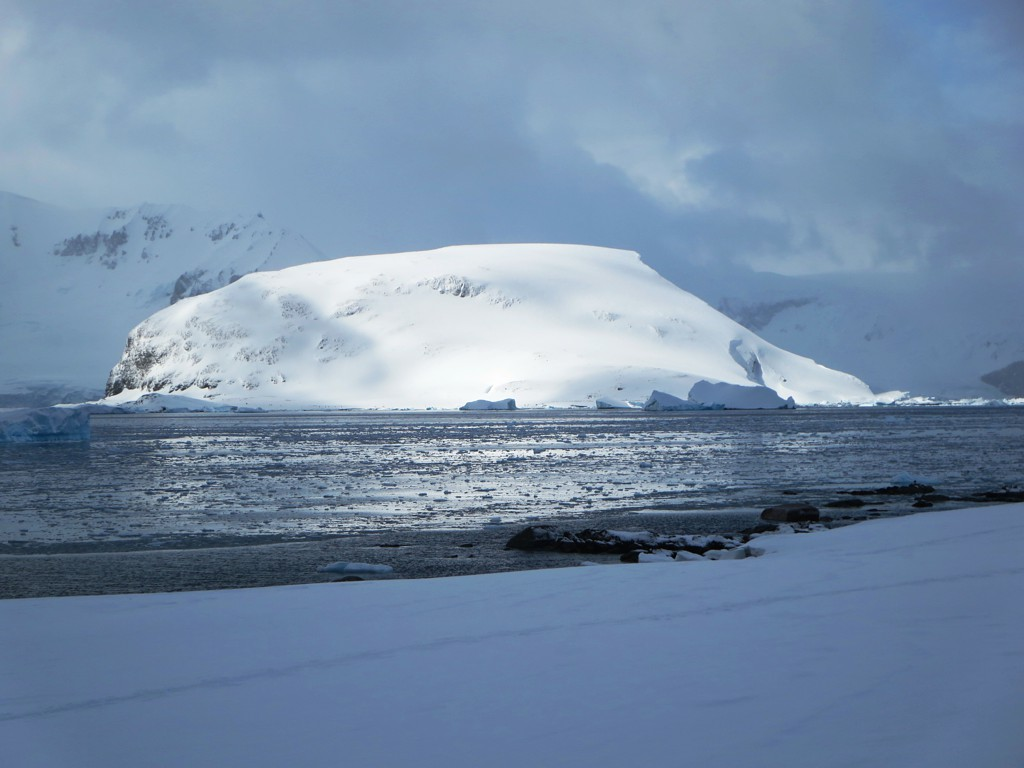 Dome-shaped Cuverville Island lies in the Errera Channel between Ronge Island and the Antarctic Peninsula.